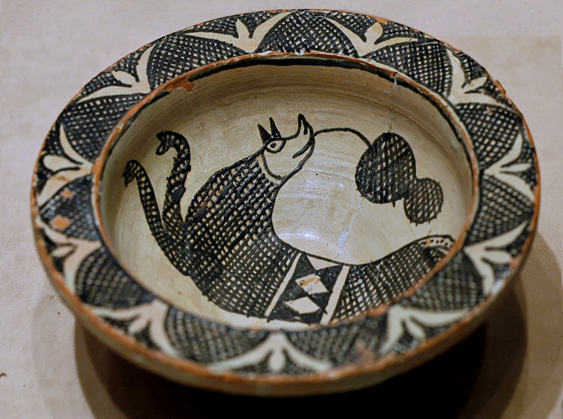 Bowl with animal decoration. Archaic majolica, Umbria (?), 14th century. Museum Santa Maria della Scala, Siena.